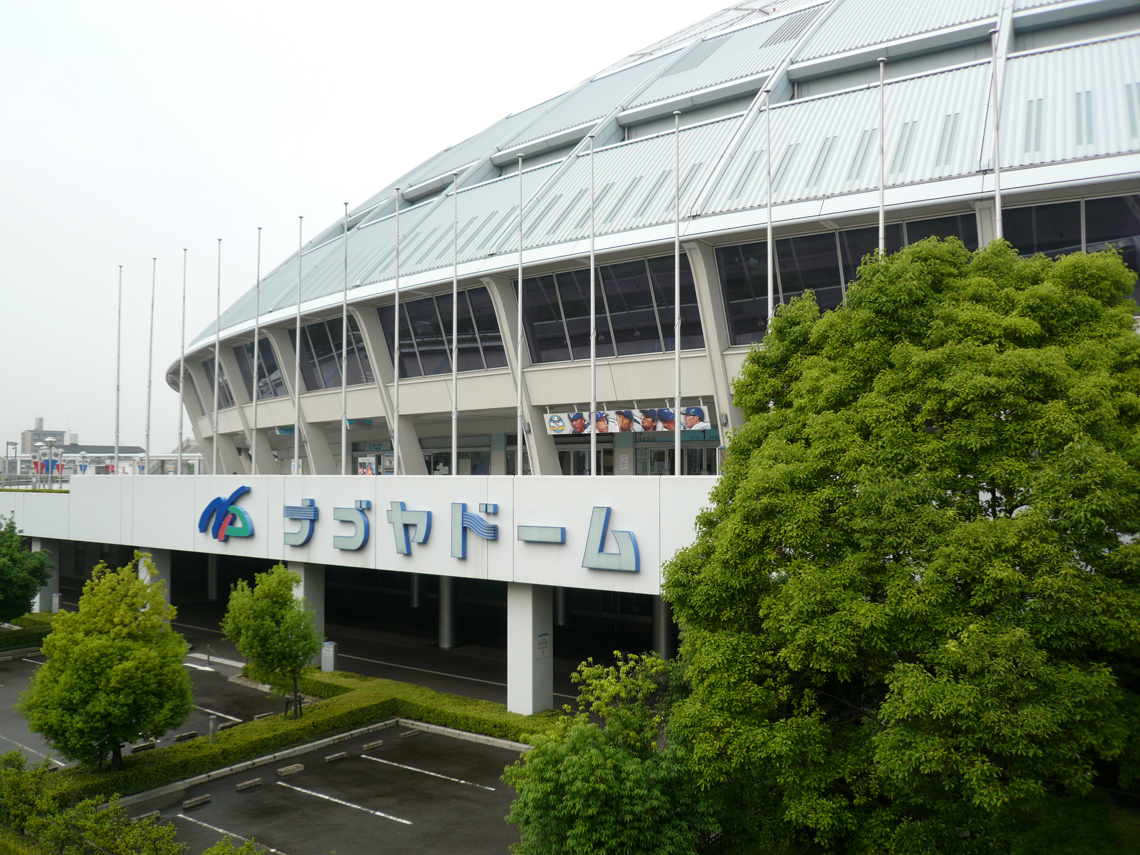 Nagoya Dome.